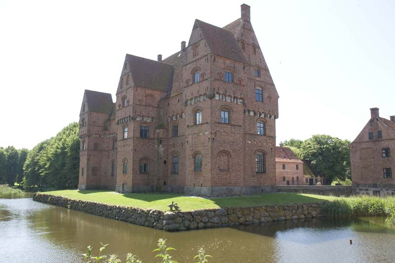 Borreby, old manor close to the danish town Skælskør. The manor believed to be founded app. 1300 +. Photo taken by Jørgen Larsen, 2007-06-19